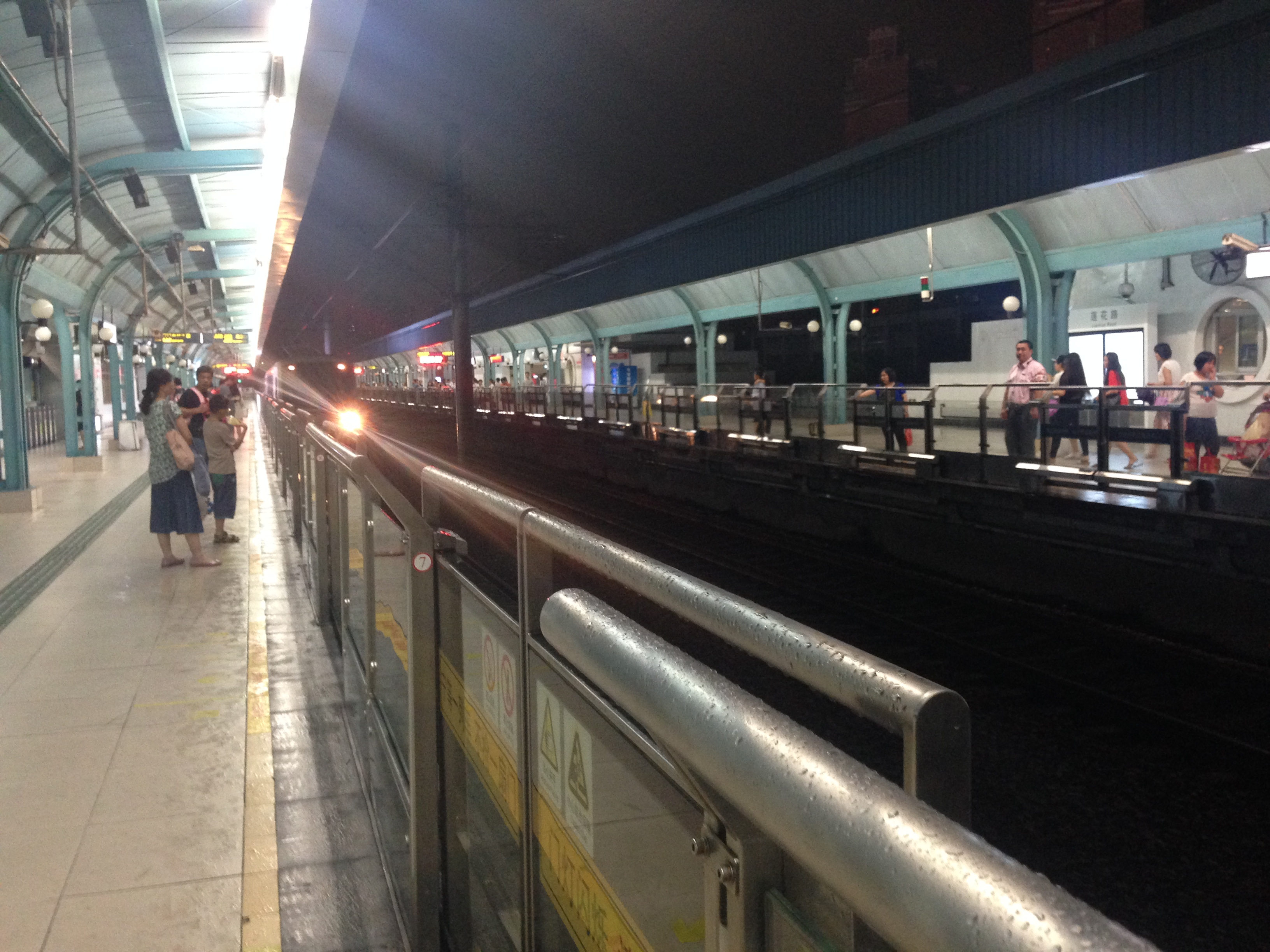 The platforms of Lianhua Road Station of Line 1, Shanghai Metro